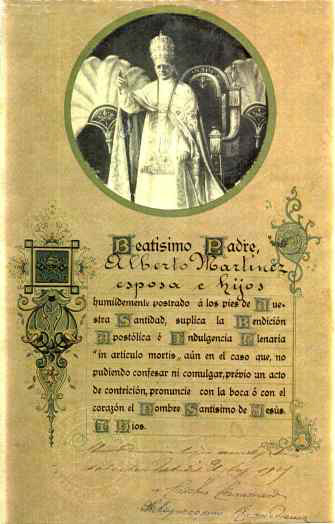 A document containing the Papal or Apostolic Blessing by pope Pius X for Martinez Blanchard and his family (1910)